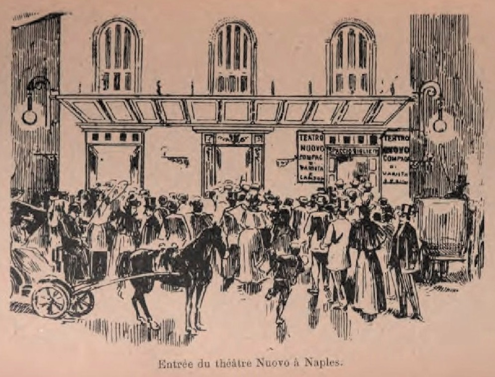 Entrance to the Teatro Nuovo, Naples, circa 1900